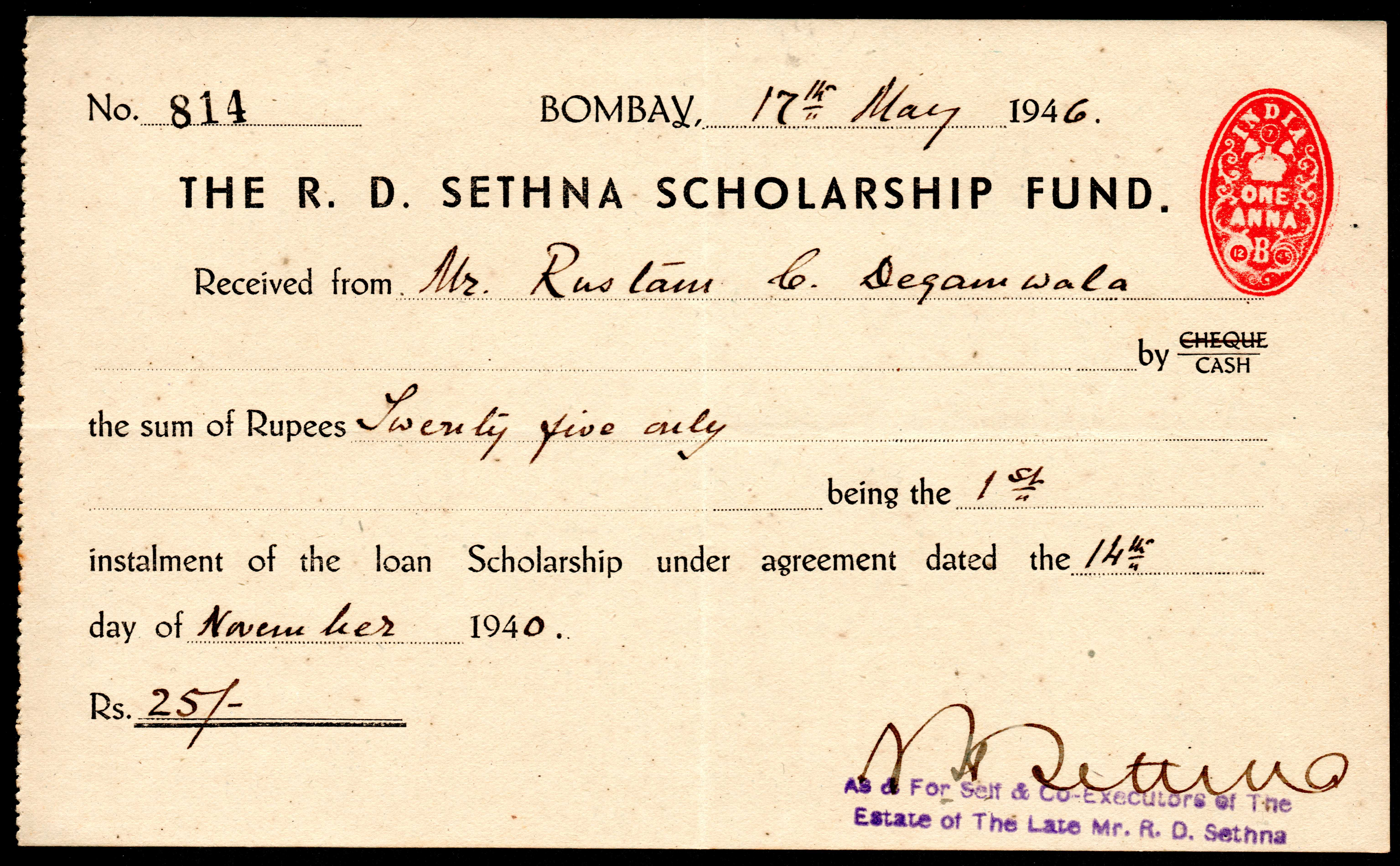 1946 receipt for a payment to the R.D. Sethna Scholarship Fund of Bombay with a 1 Anna Bombay impressed duty stamp.